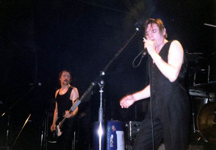 Einstürzende Neubauten on stage at "Tollhaus" in Karlsruhe, Germany (May 19, 2000). Silence Is Sexy/20th Anniversary Tour. Photo is made by myself left to right: Alexander Hacke (bass), Blixa Bargeld (vocals)